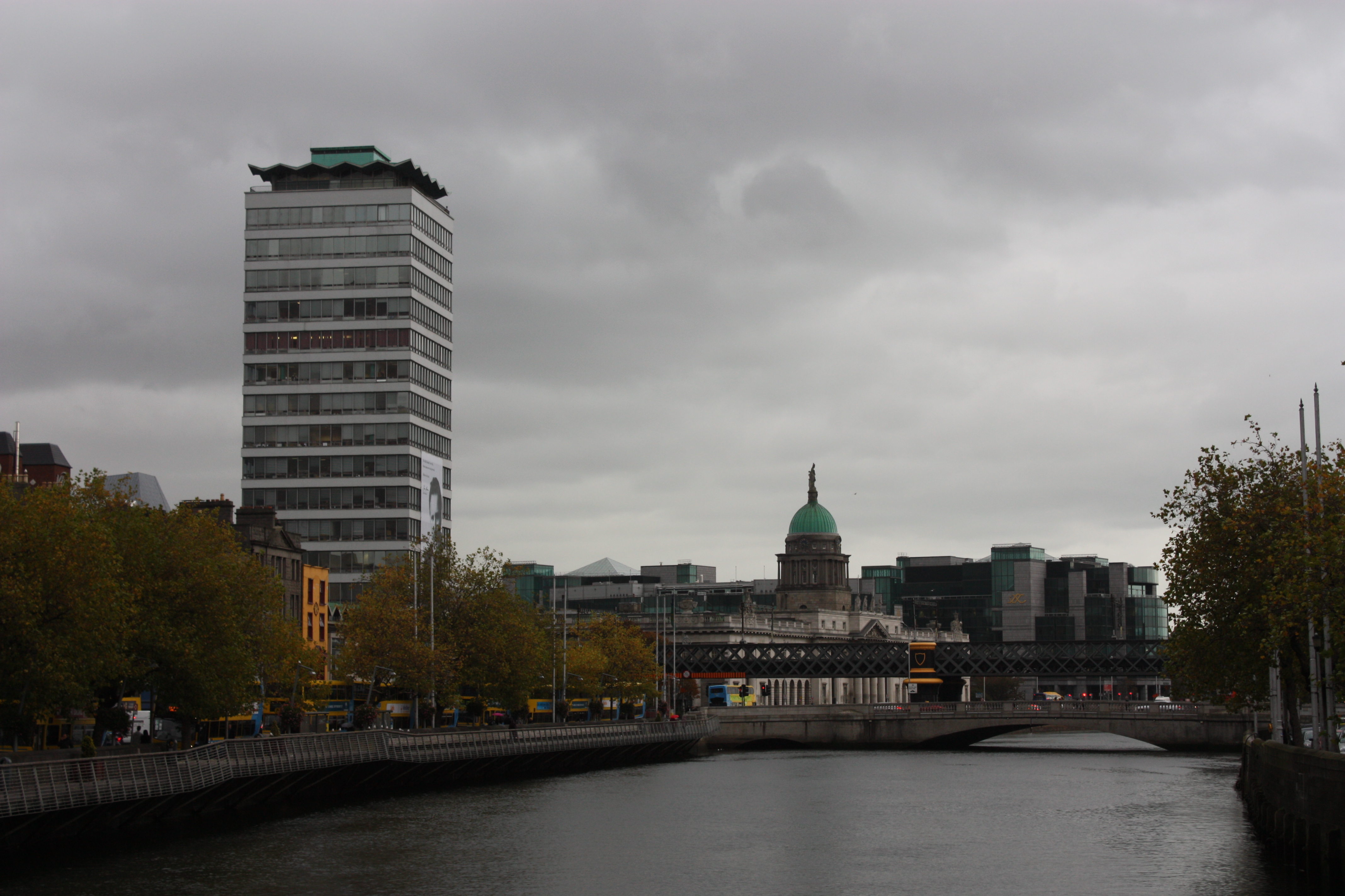 Liberty Hall and Liffey, Dublin, Republic of Ireland, October 2010 (viewed from O'Connell Bridge)